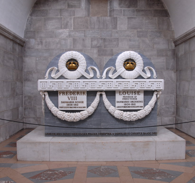 The Glücksborgian Chapel. Tombe of Frederik VIII (1843-1912) and Queen Louise of Sweden) (1851-1926). Frederik was king of Denmark from 1906 till his death in 1912. Sarcophagus by Einar Utzon-Frank. Graf van Frederik VIII en Louise van Zweden) (1851-1926). Frederik VIII (1843-1912) was van 1906 tot 1912 koning van Denemarken.